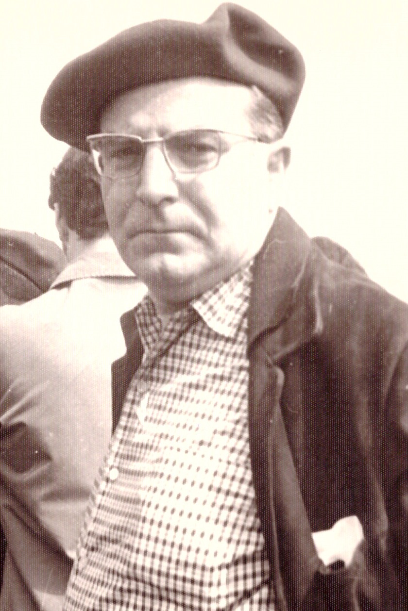 Carlist rally in May 1969, the summit of Montejurra. José Ángel Zubiaur Alegre during the act. Photo from JAZA, the private archive of José Ángel Zubiaur Alegre